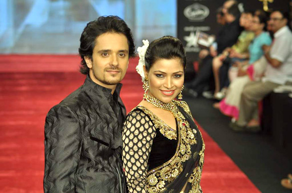 Raghav Sachar and Amita Pathak at the India International Jewellery Week 2012.